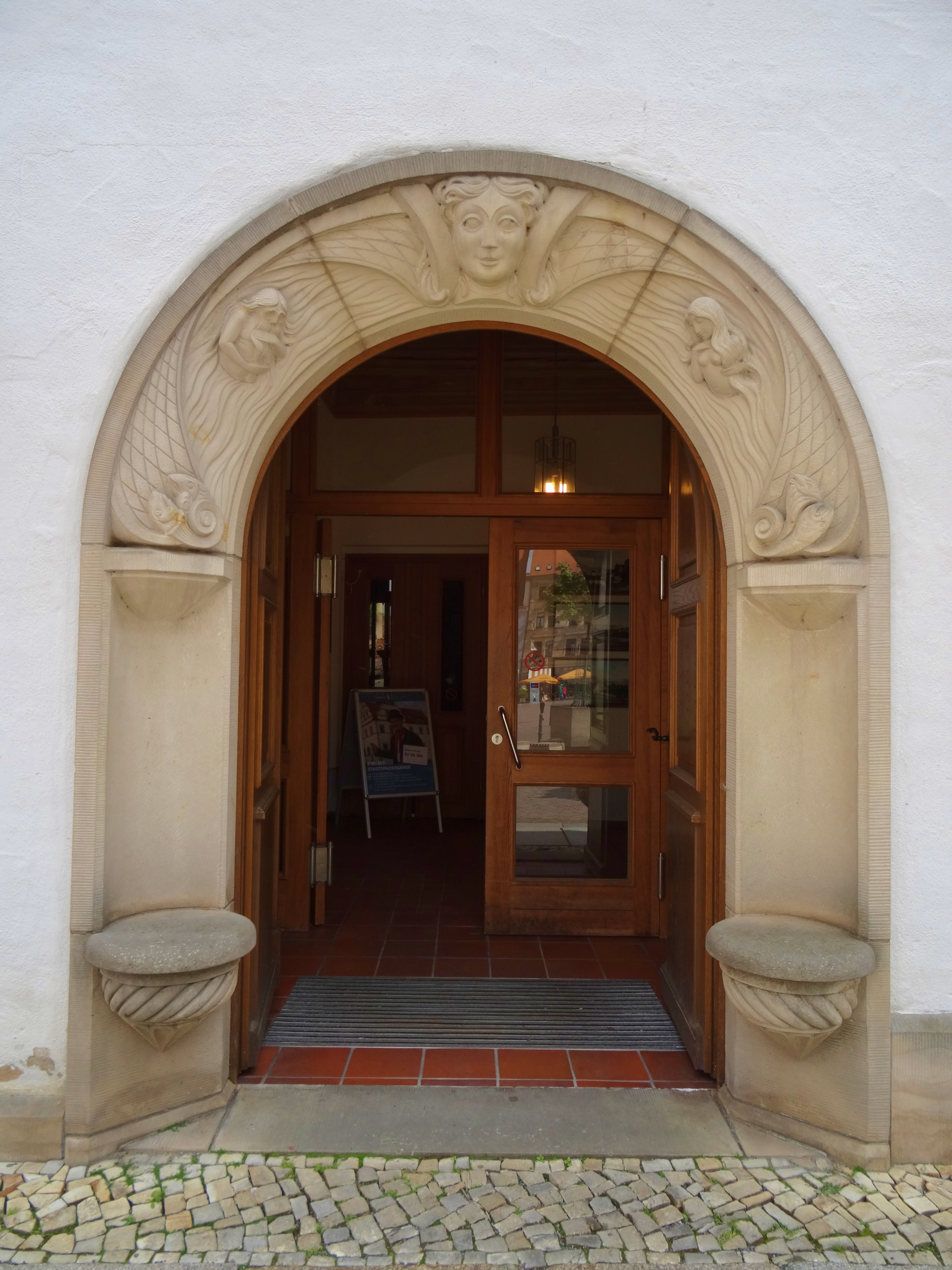 The building Am Markt 7 in Pirna.